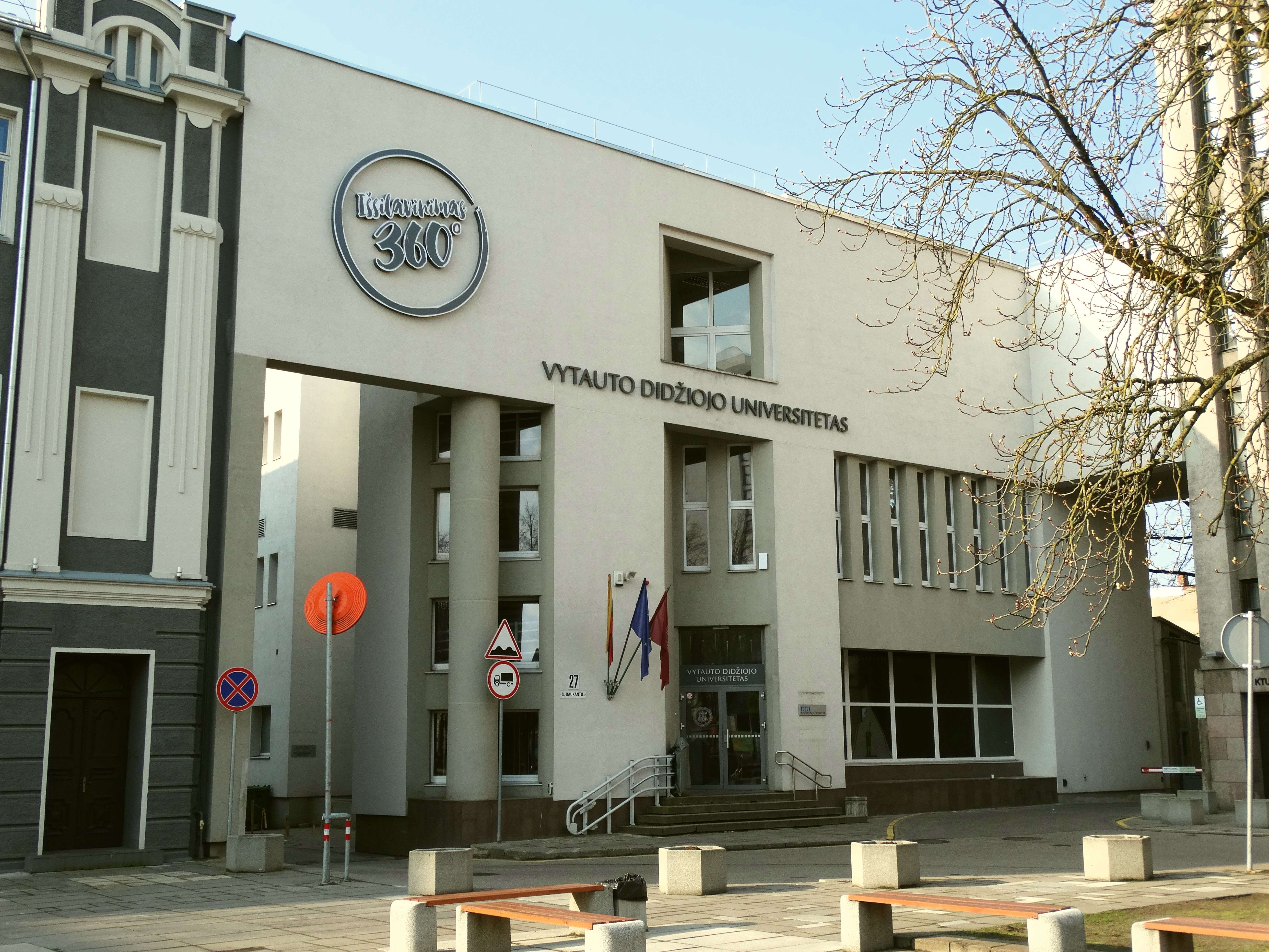 Student Centre, Vytautas Magnus University, Kaunas